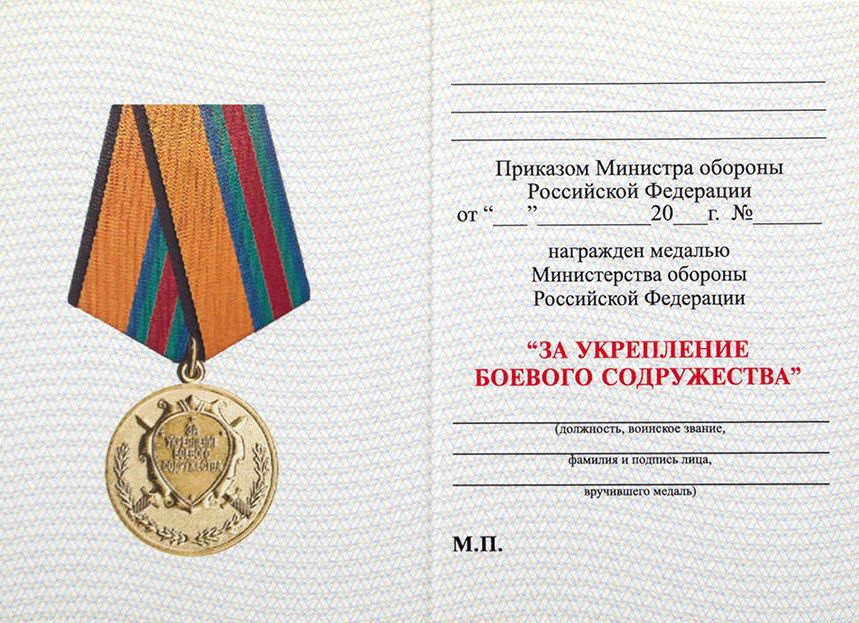 Medal "For Strengthening Military Cooperation". Awarded to military and civilian personnel of the Ministry of Defence of the Russian Federation, and in some cases to ordinary citizens of Russia or foreign citizens for merits in strengthening the brotherhood of arms and fostering military cooperation with friendly nations. Reverse inscription reads «МИНИСТЕРСТВО ОБОРОНЫ РОССИЙСКОЙ ФЕДЕРАЦИИ» (Ministry of Defence of the Russian Federation). Type 1 medal (left) was awarded between 1995 and 2009. The type 2 award with new ribbon and reverse has been awarded since 2009.